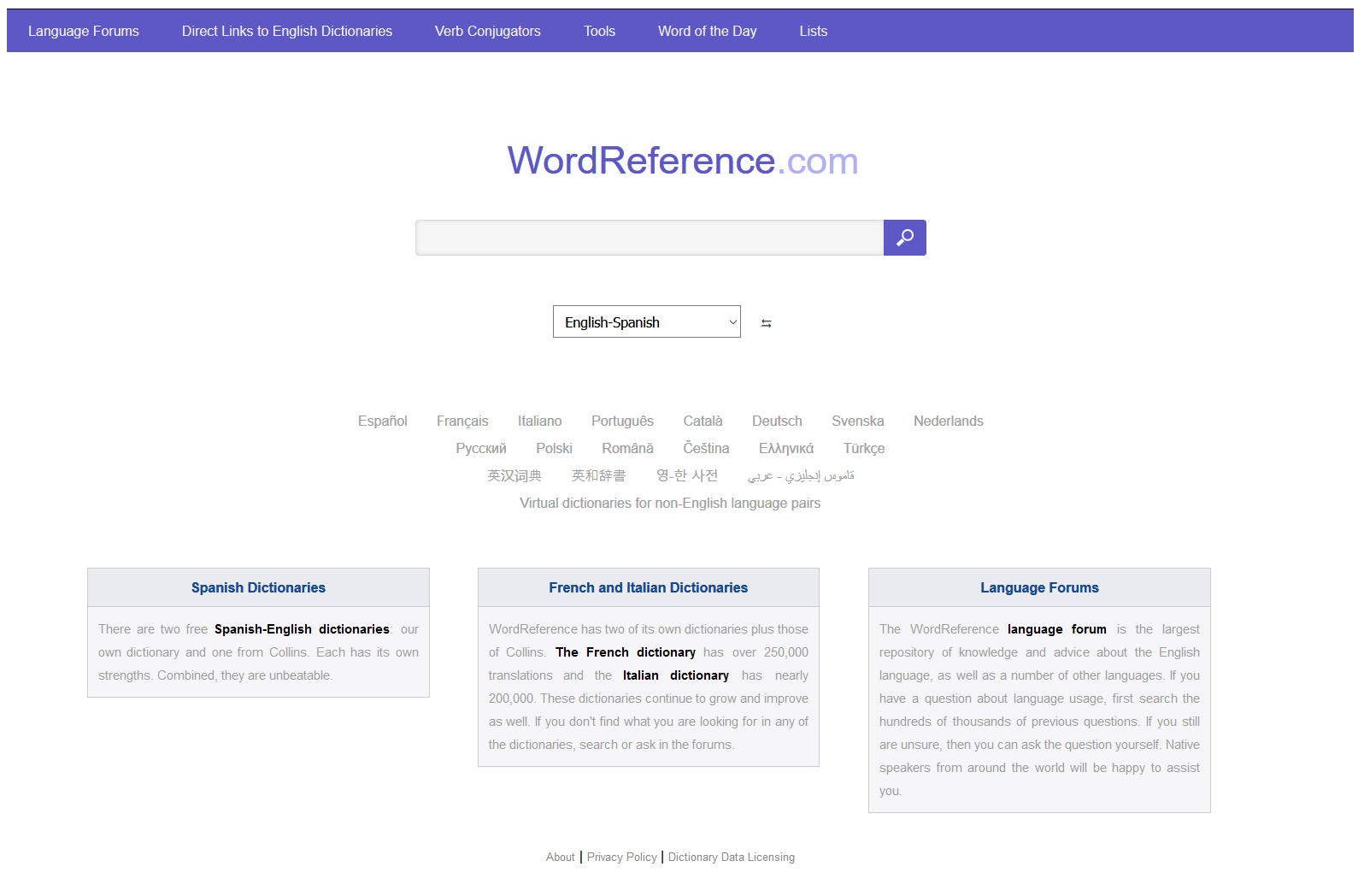 Screenshot